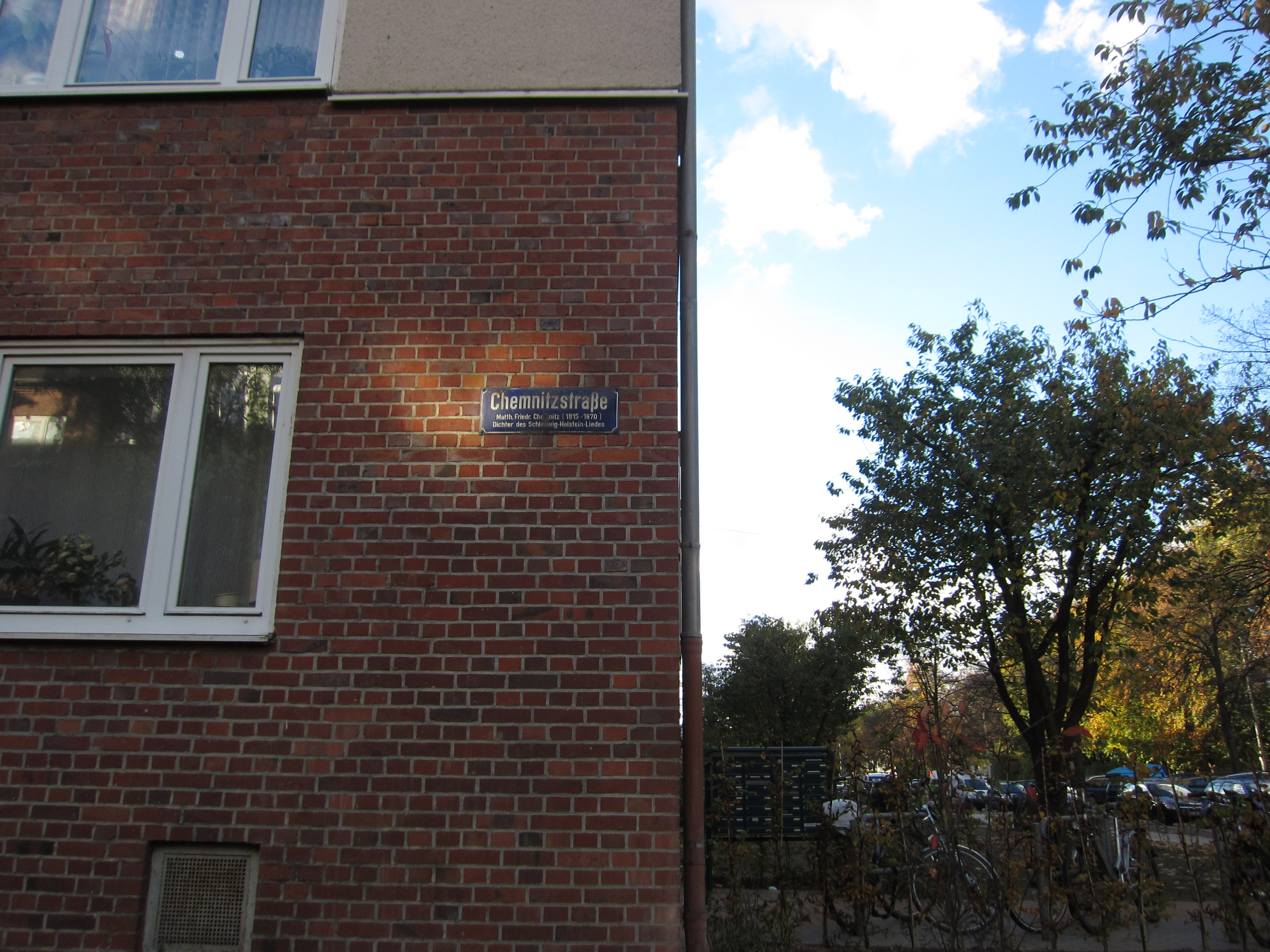 Street sign "Chemnitzstraße" in Kiel-Südfriedhof